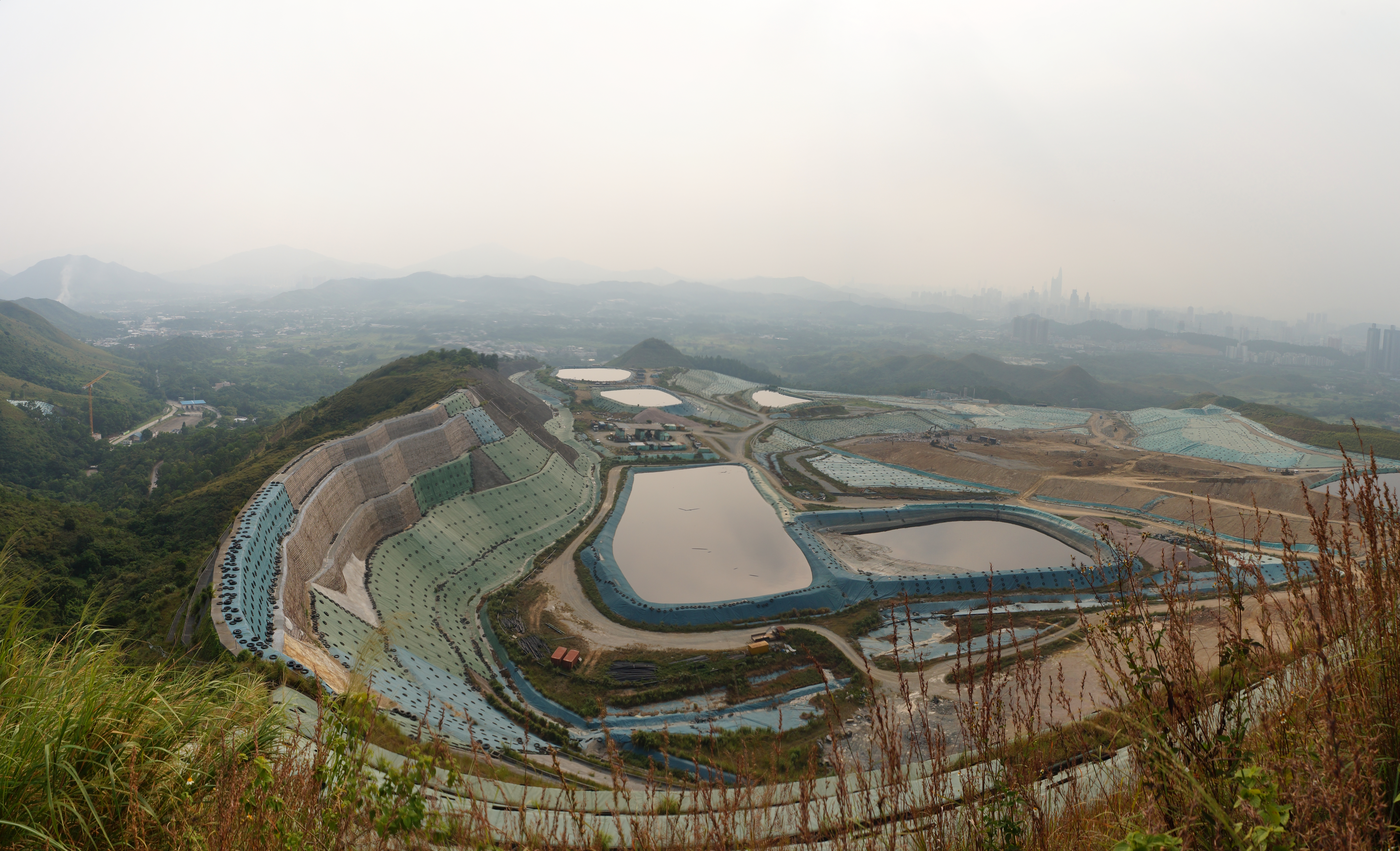 North East New Territories Landfill